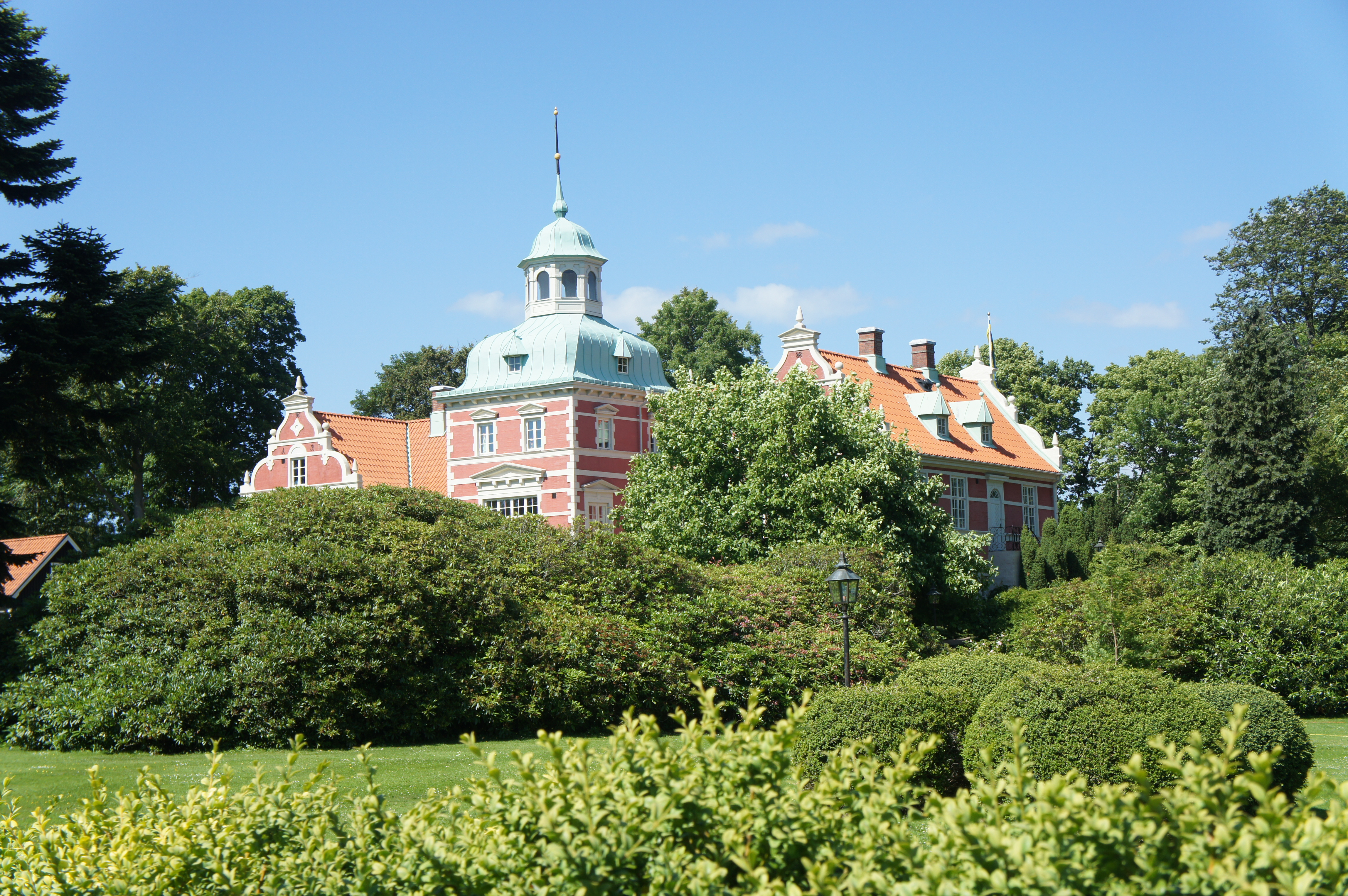 The manor Stubbarp, Scania, Sweden